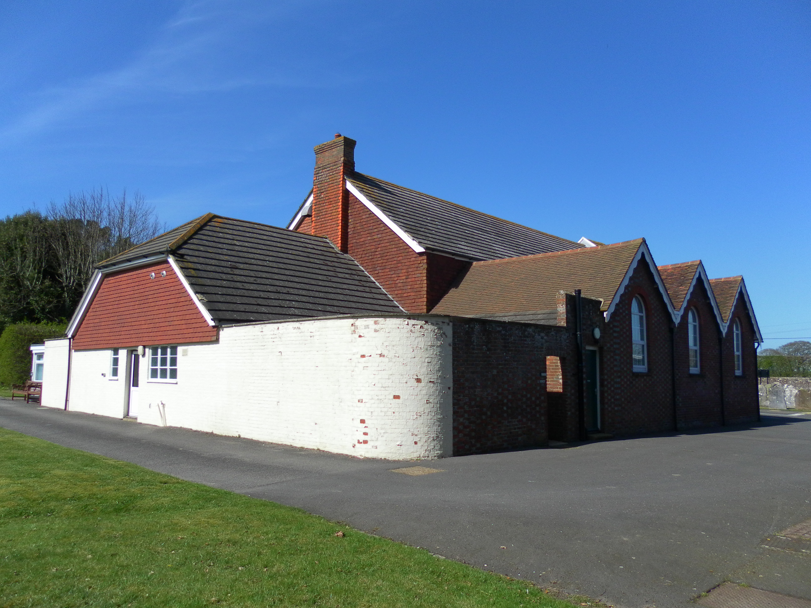 Zoar Strict Baptist Chapel, Lower Dicker, Wealden District, East Sussex, England. Built in 1837 and enlarged in 1874. This view shows the south (rear) and east sides.